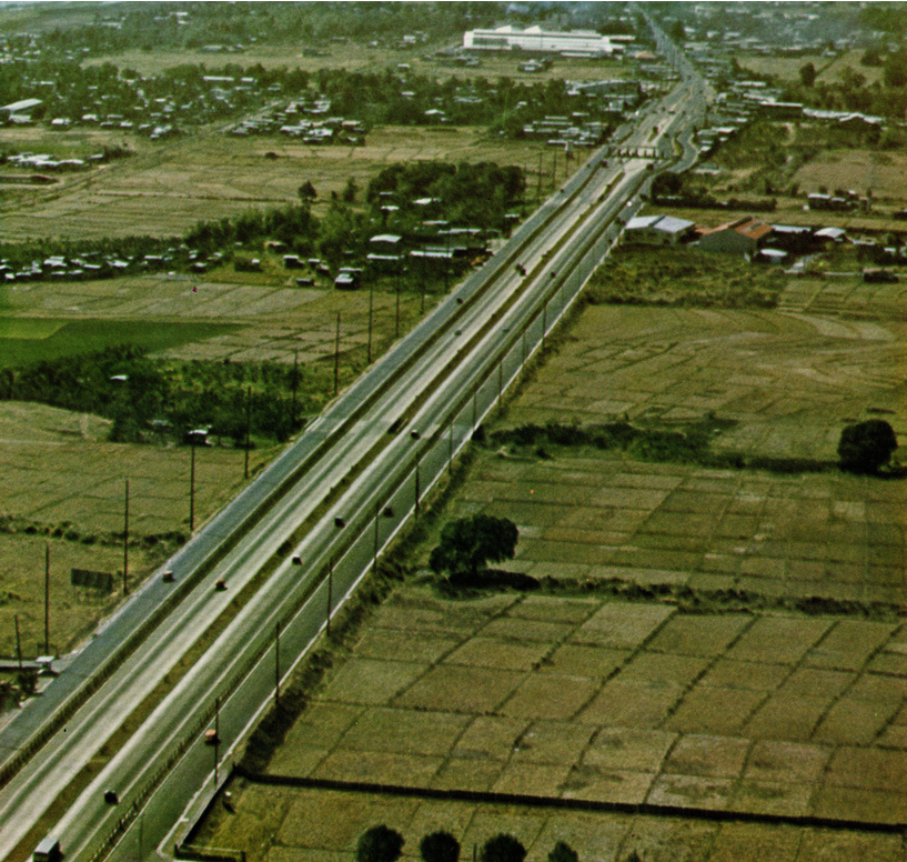 The South Luzon Expressway at Bicutan, Parañaque